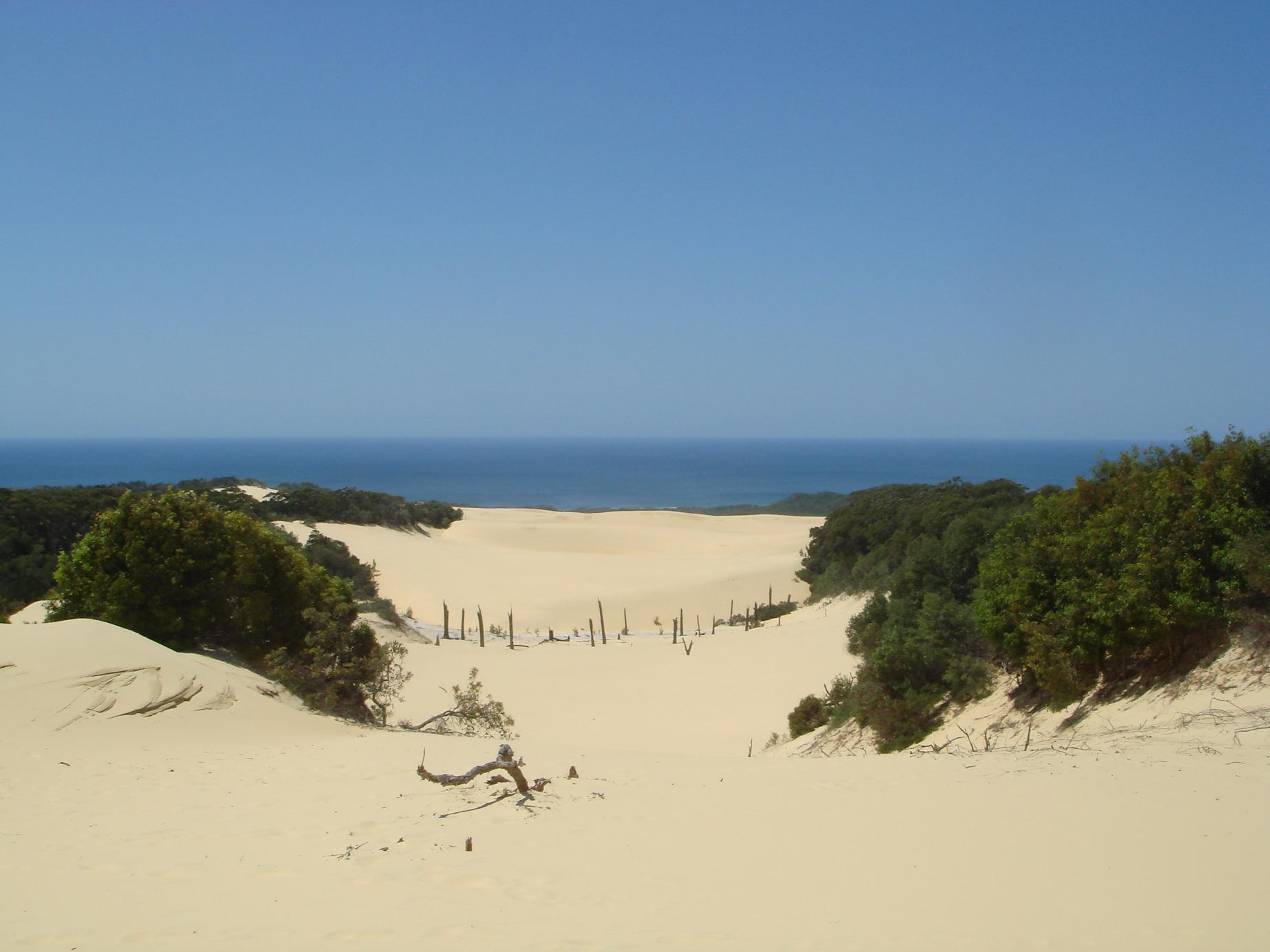 Badjala sandblow on Fraser Island, Queensland, Australia